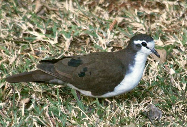 Male Tambourine Dove (Turtur tympanistria); photo taken in Pietermaritzburg, KwaZulu-Natal, South Africa.